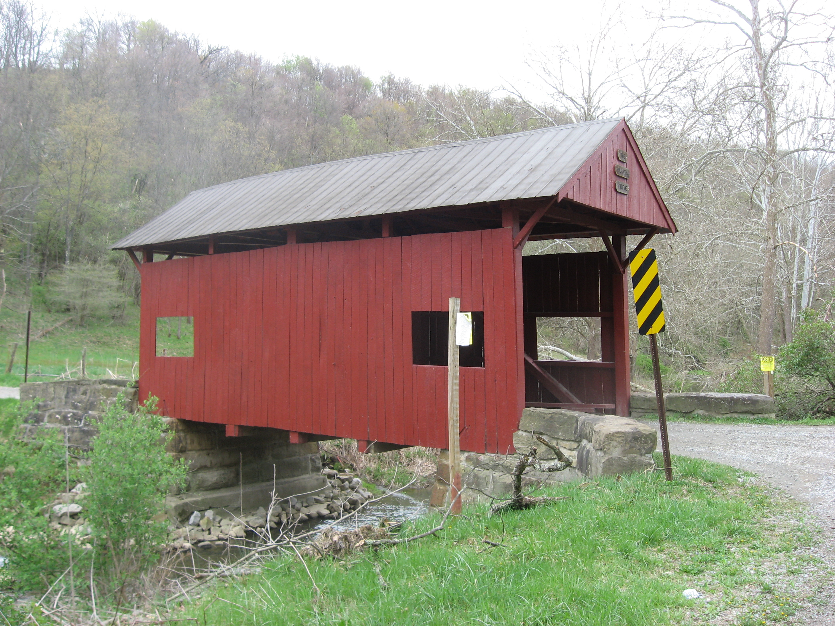 Northern side and western portal of Plant's Covered Bridge, which carries Sky View Road over Templeton Run in East Finley Township, Washington County, Pennsylvania, United States. The bridge is listed on the National Register of Historic Places.